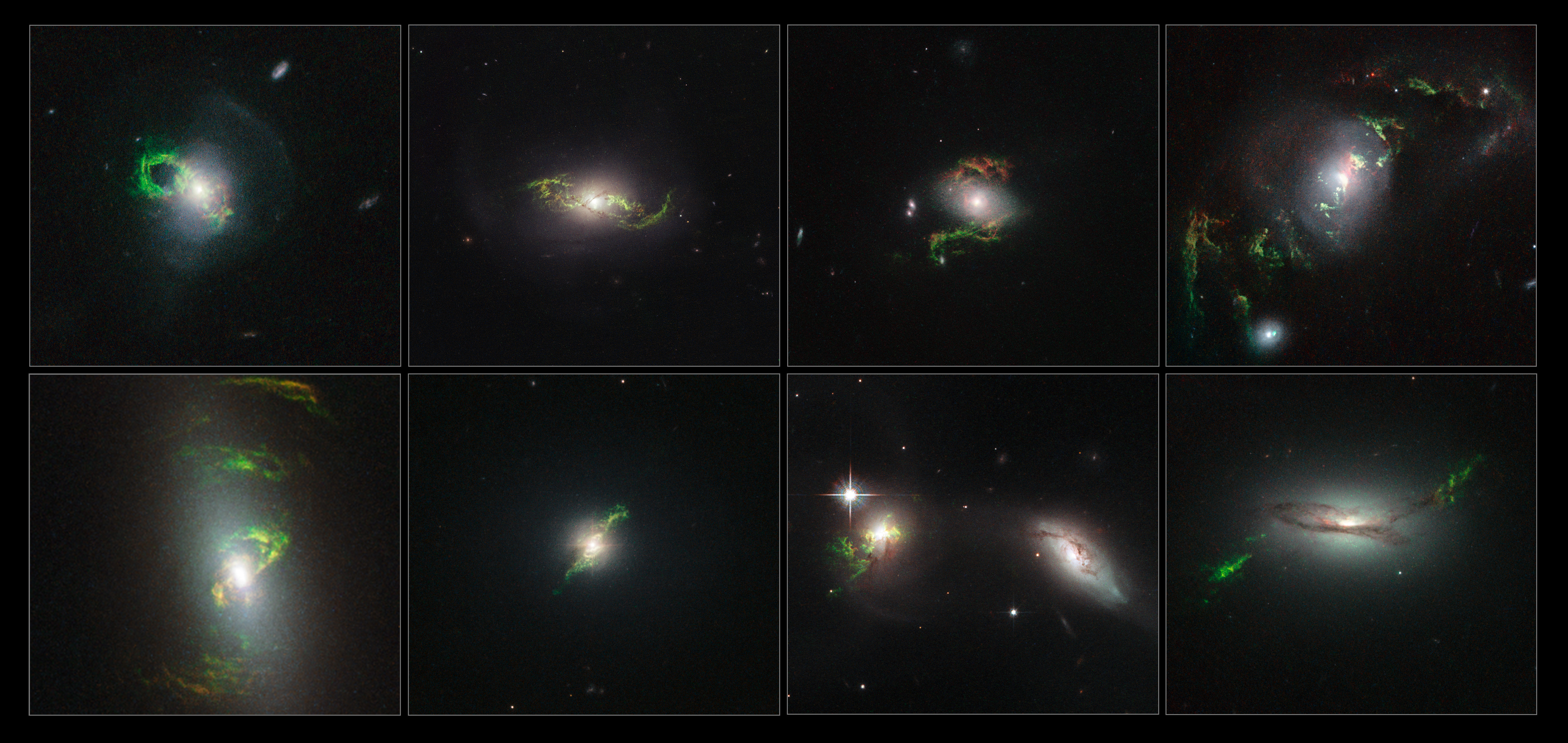 This image shows the winding green filaments observed by the NASA/ESA Hubble Space Telescope within eight different galaxies. The ethereal wisps in these images were illuminated, perhaps briefly, by a blast of radiation from a quasar — a very luminous and compact region that surrounds a supermassive black hole at the centre of a galaxy. In each of these eight images a quasar beam has caused once-invisible filaments in deep space to glow through a process called photoionisation. Oxygen, helium, nitrogen, sulphur and neon in the filaments absorb light from the quasar and slowly re-emit it over many thousands of years. Their unmistakable emerald hue is caused by ionised oxygen, which glows green. The Hubble team found a total of twenty galaxies that had gas ionised by quasars; those featured here are (from left to right on top row) the Teacup (more formally known as 2MASX J14302986+1339117), NGC 5972, 2MASX J15100402+0740370 and UGC 7342, and (from left to right on bottom row) NGC 5252, Mrk 1498, UGC 11185 and 2MASX J22014163+1151237.